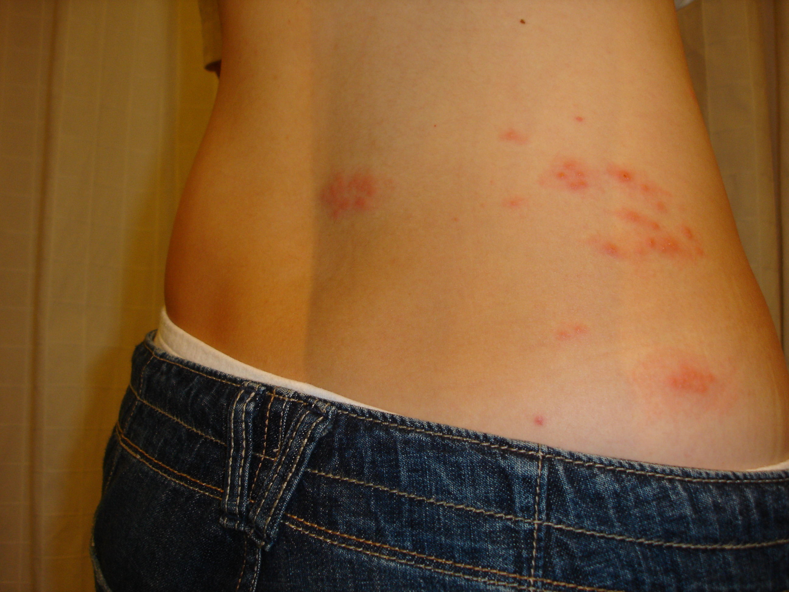 Mild case of herpes zoster on lower back. Photo taken 3 days after rash first appeared.